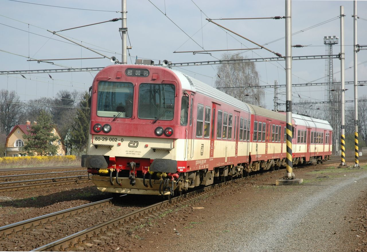 Driving car CZ-ČD 50 54 80-29 002-0 (former 943.002-6), station Ostrava-Kunčice, Czech Republic